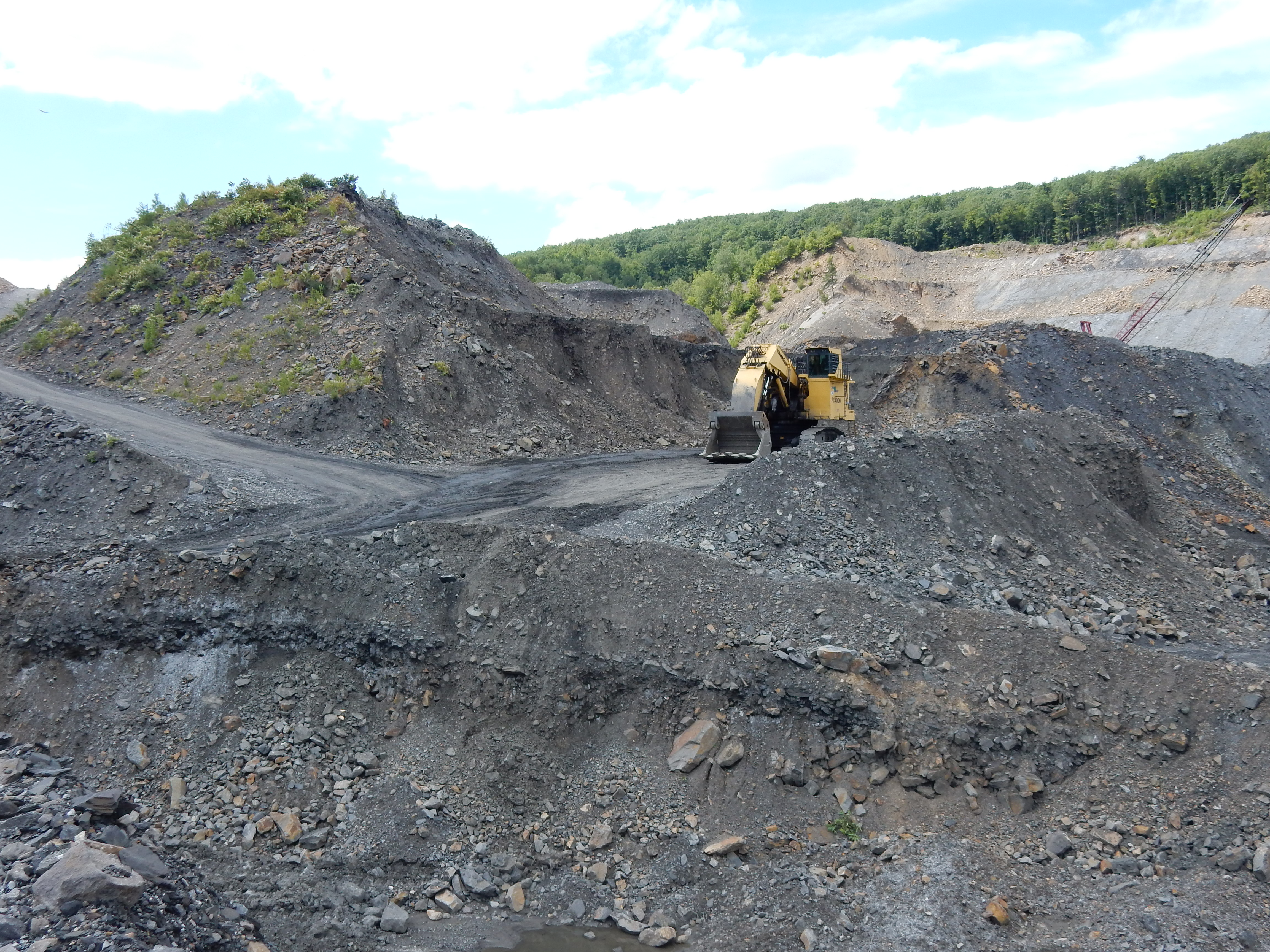 Coal Mining to the north of Valley Rd. near Heckscherville, Cass Township, Schuylkill County, Pennsylvania.